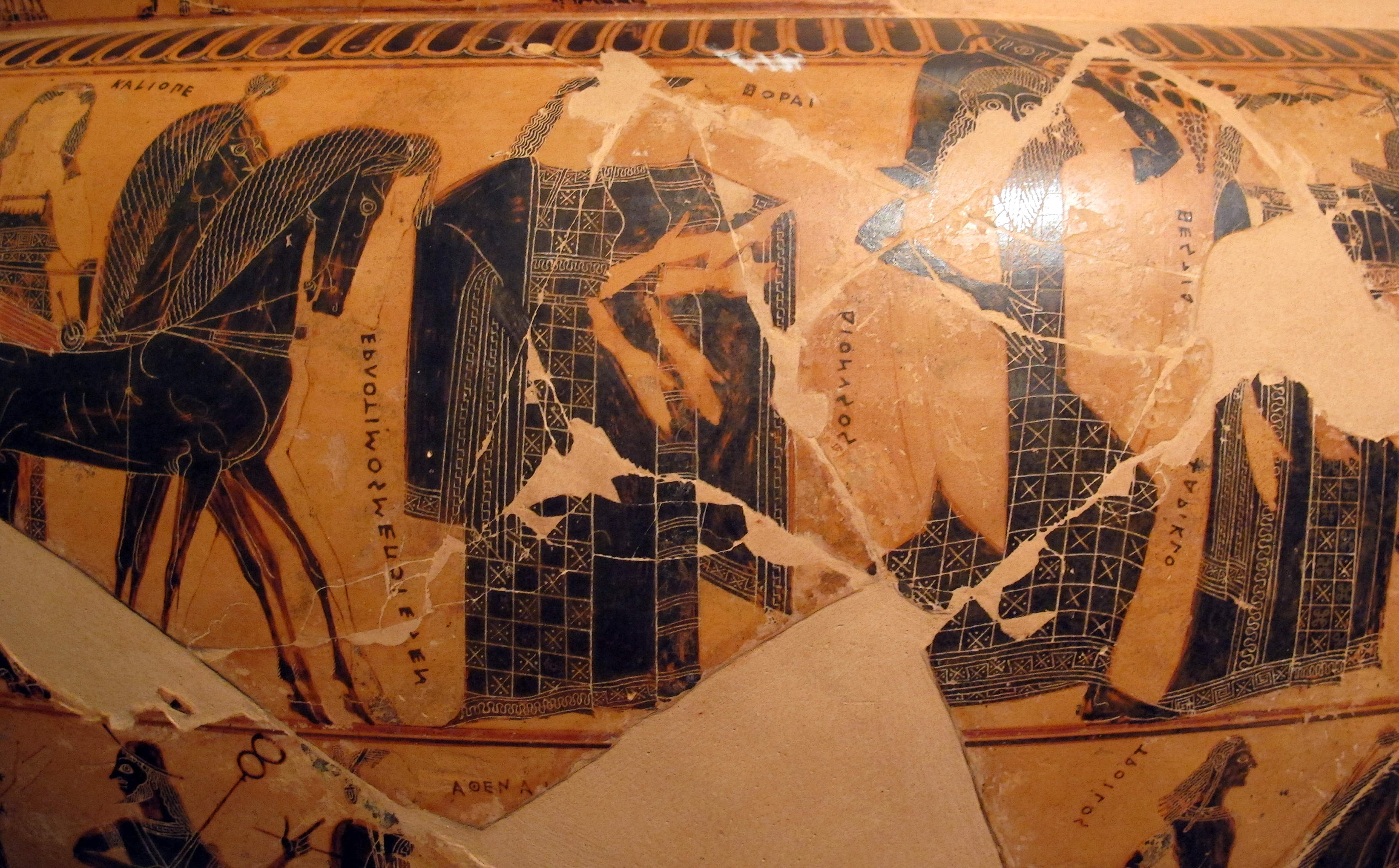 François vase